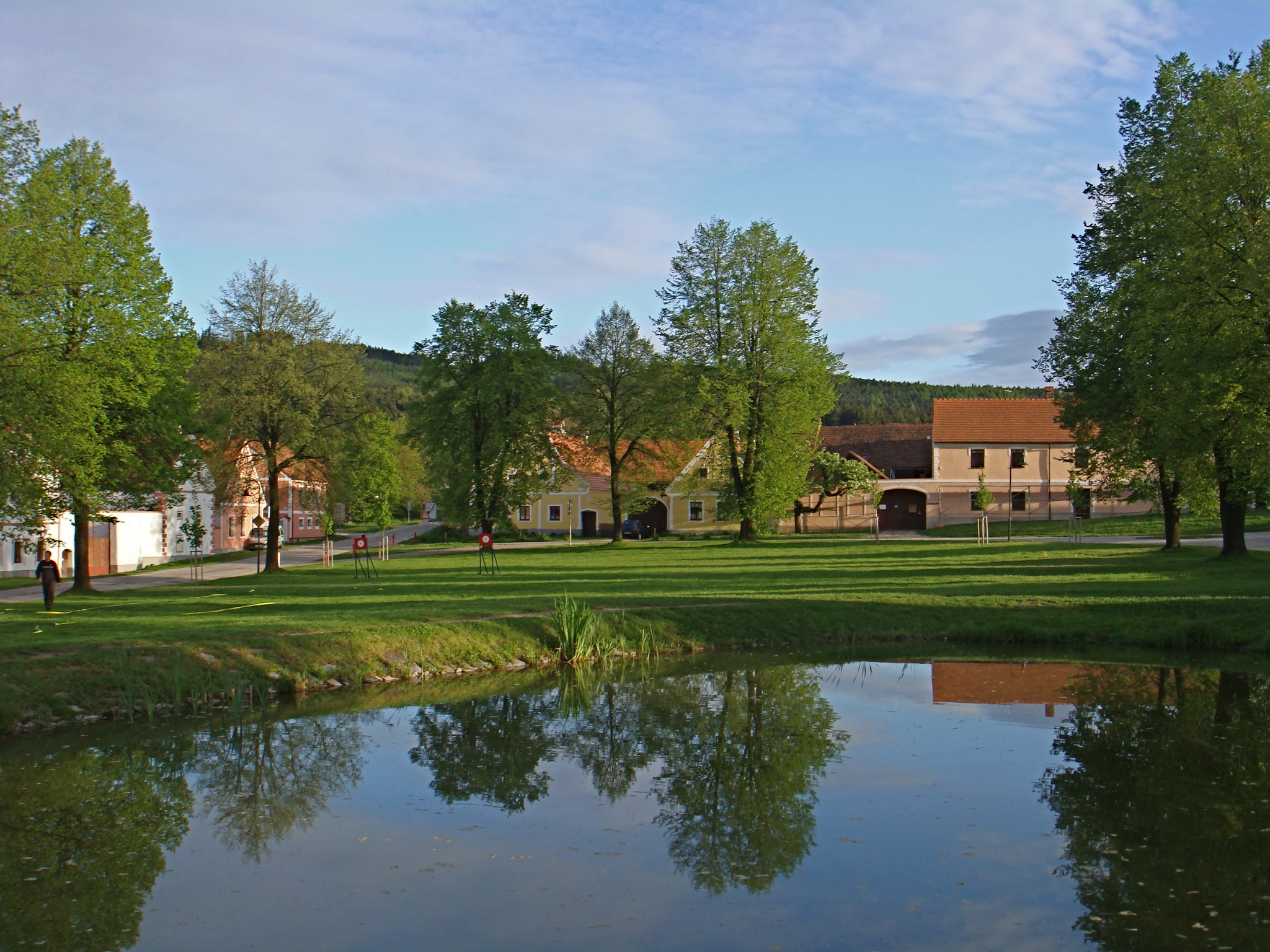 Holašovice Historic Village (Czech Republic)